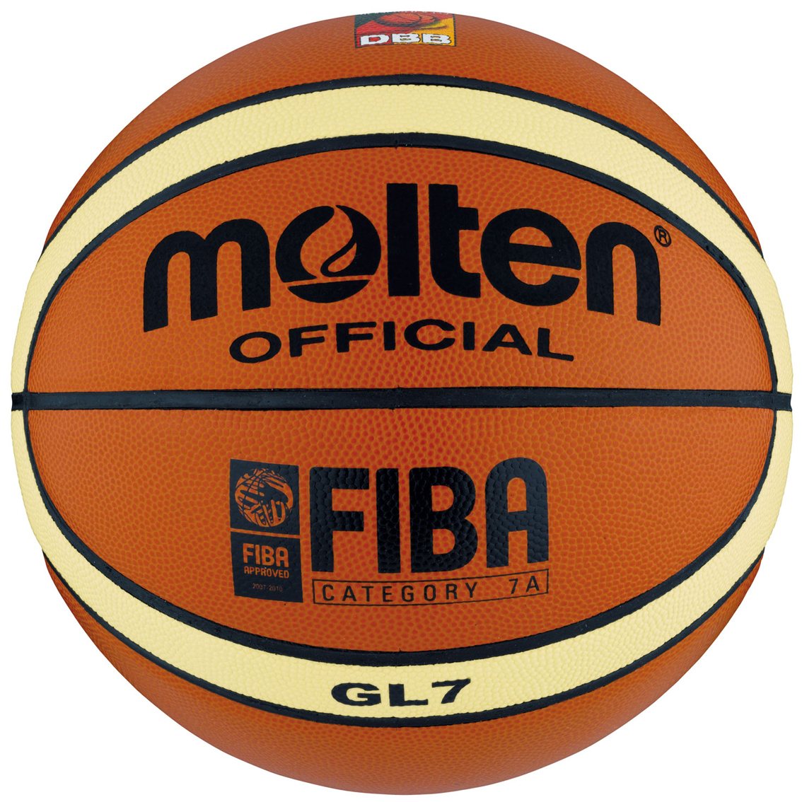 Basketball Molten GL7